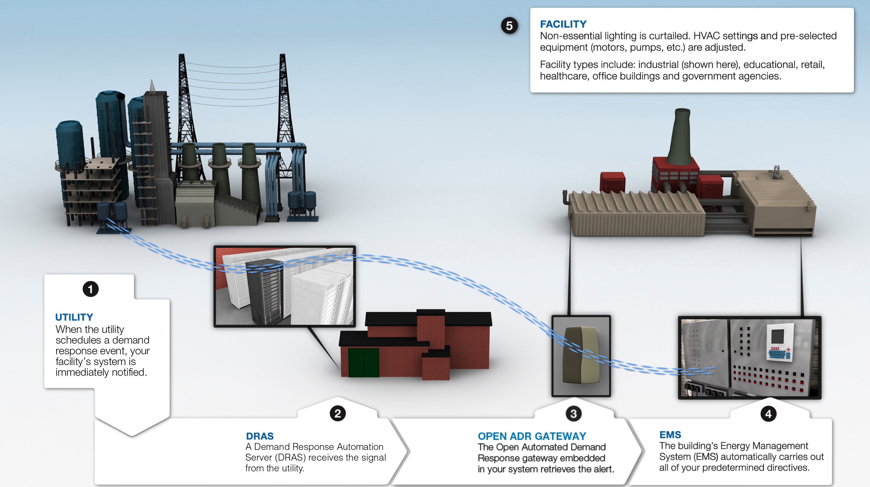 Automated Demand Response helps to shed load during peak events while minimizing disruption to customers. The program is used by a range of customers from residential to large industrial facilities to pre-determine strategies for load shed and enable the utility to increase load shed while reducing the impact on the customer.